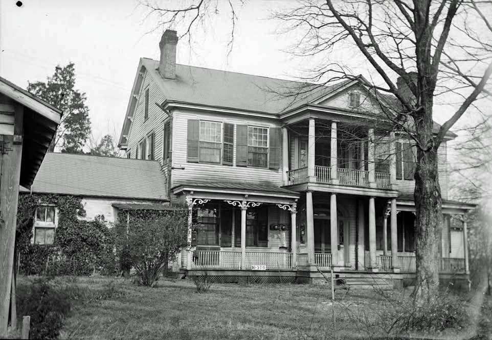 Mary McFarland House — 420 South Pine Street, Florence, Lauderdale County, AL REAR VIEW (S. elevation) Alternate Title: Mapleton, George Coulter House, or Coulter-McFarland House. Image: HABS—Historic American Buildings Survey of Alabama; Call Number: HABS ALA,39-FLO,6-3 Created/Published: Documentation compiled after 1933. Notes: Survey number HABS AL-376. Building/structure dates: Built about 1850. National Register of Historic Places in Lauderdale County, Alabama.